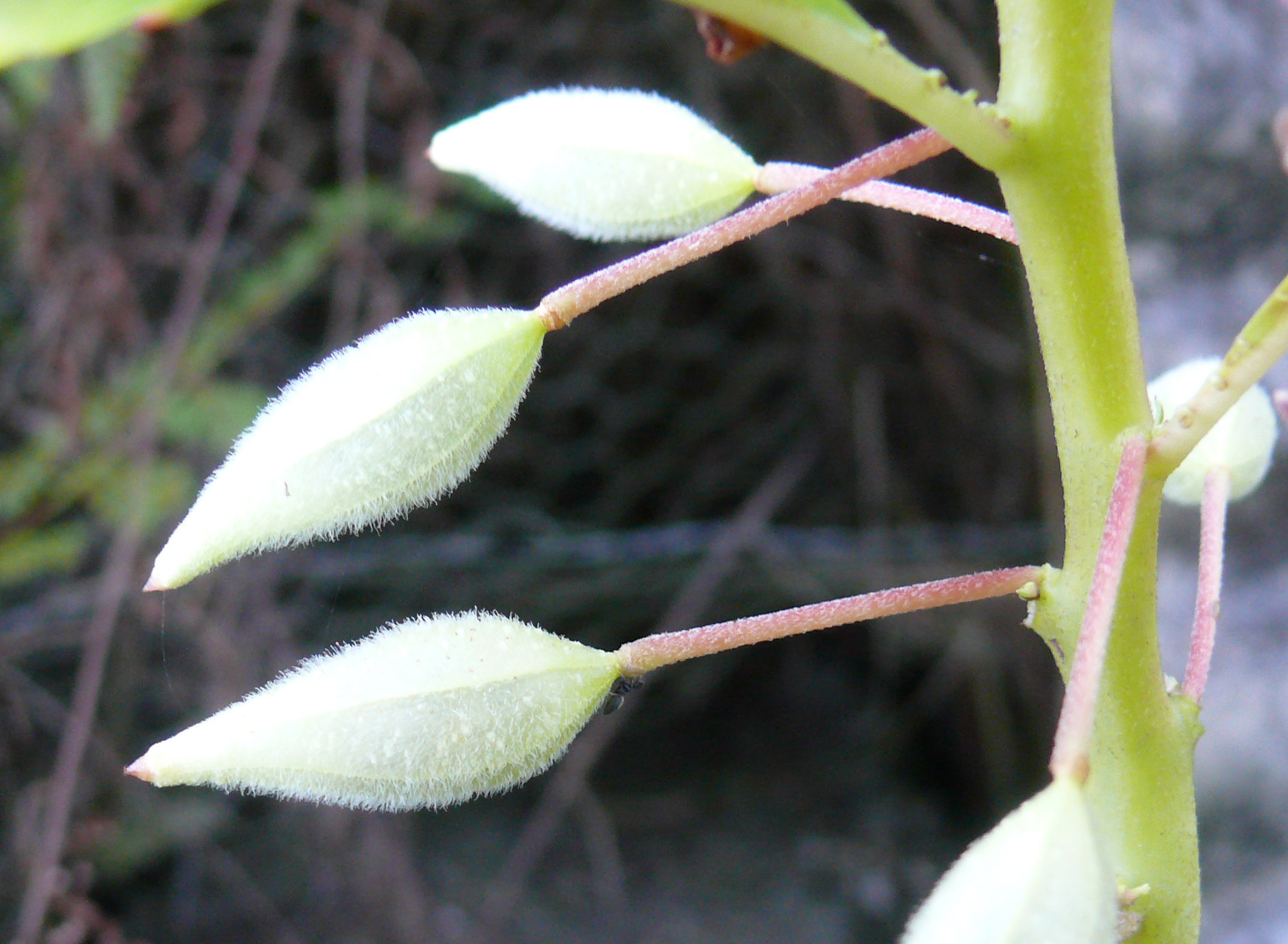 Seed pod of Impatiens balsamina en , photo taken in Hong Kong.